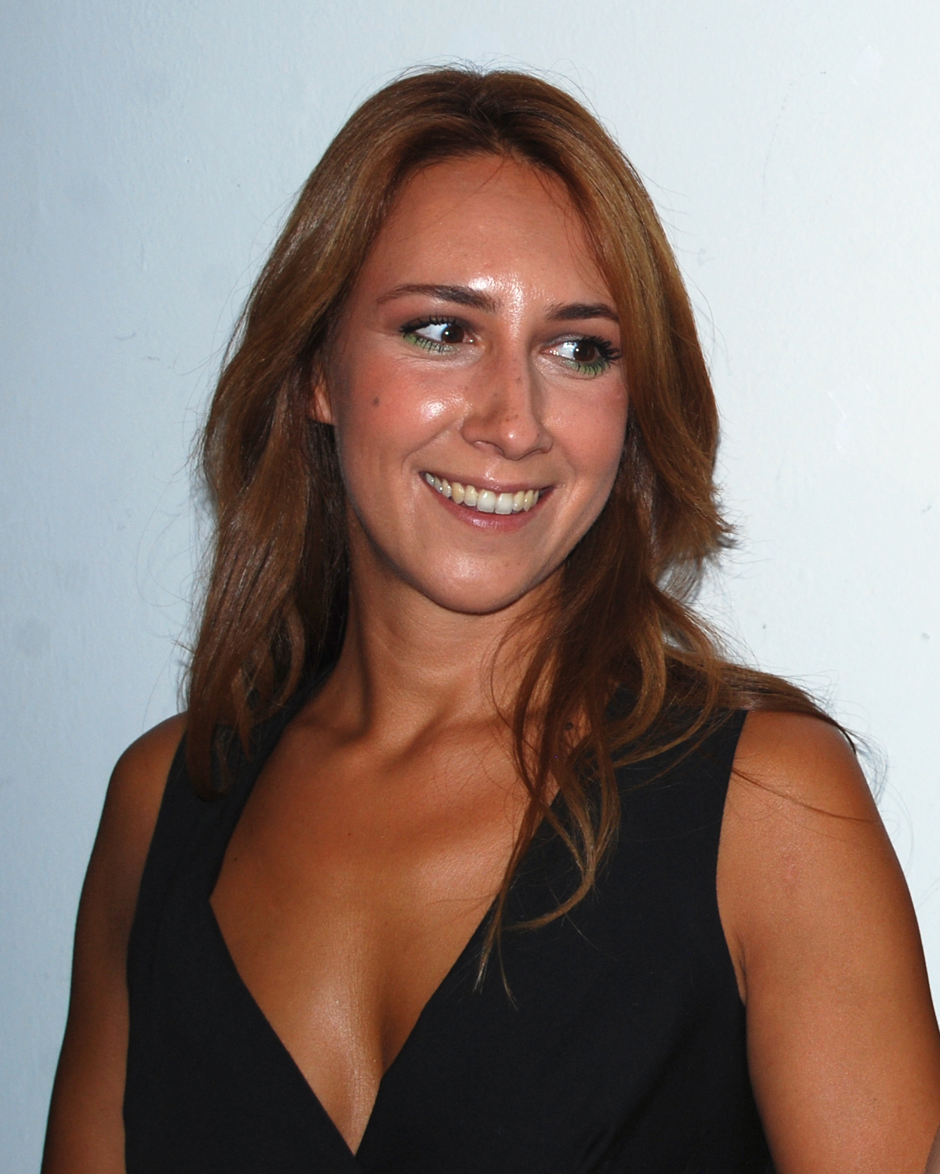 Serbian painter Jovanka Stanojević at the opening of her solo exhibition in Sansepolcro, Italy, September 5th, 2014.